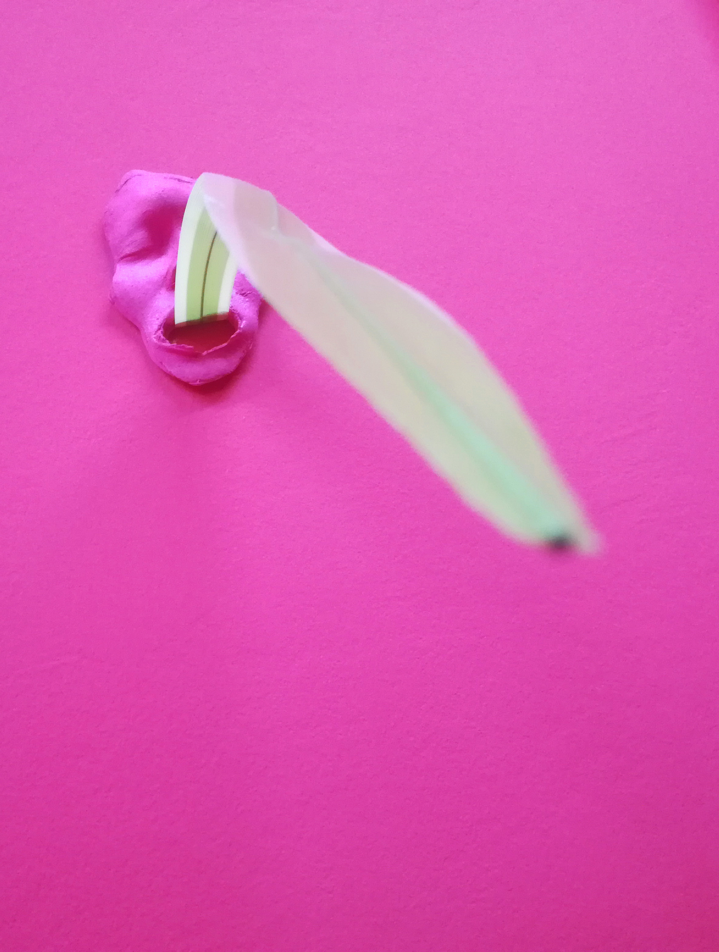 Part of installation/performance "Blendwerk / Stadt in den Wolken" by Jasmin Hagendorfer and Offerus Ablinger (at Vienna Art Week 2018).